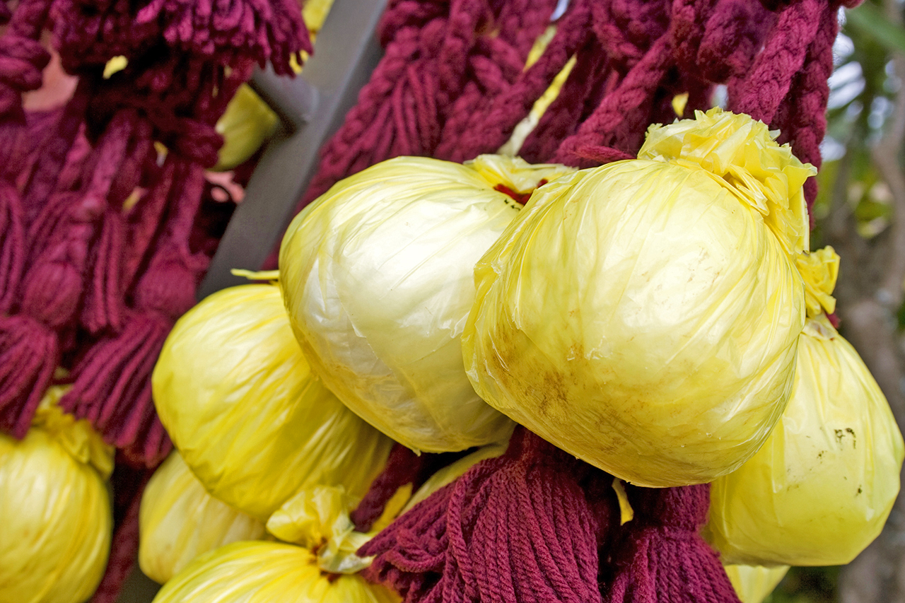 Picture of poi made with modern materials, photo by User:Tijuana Brass.